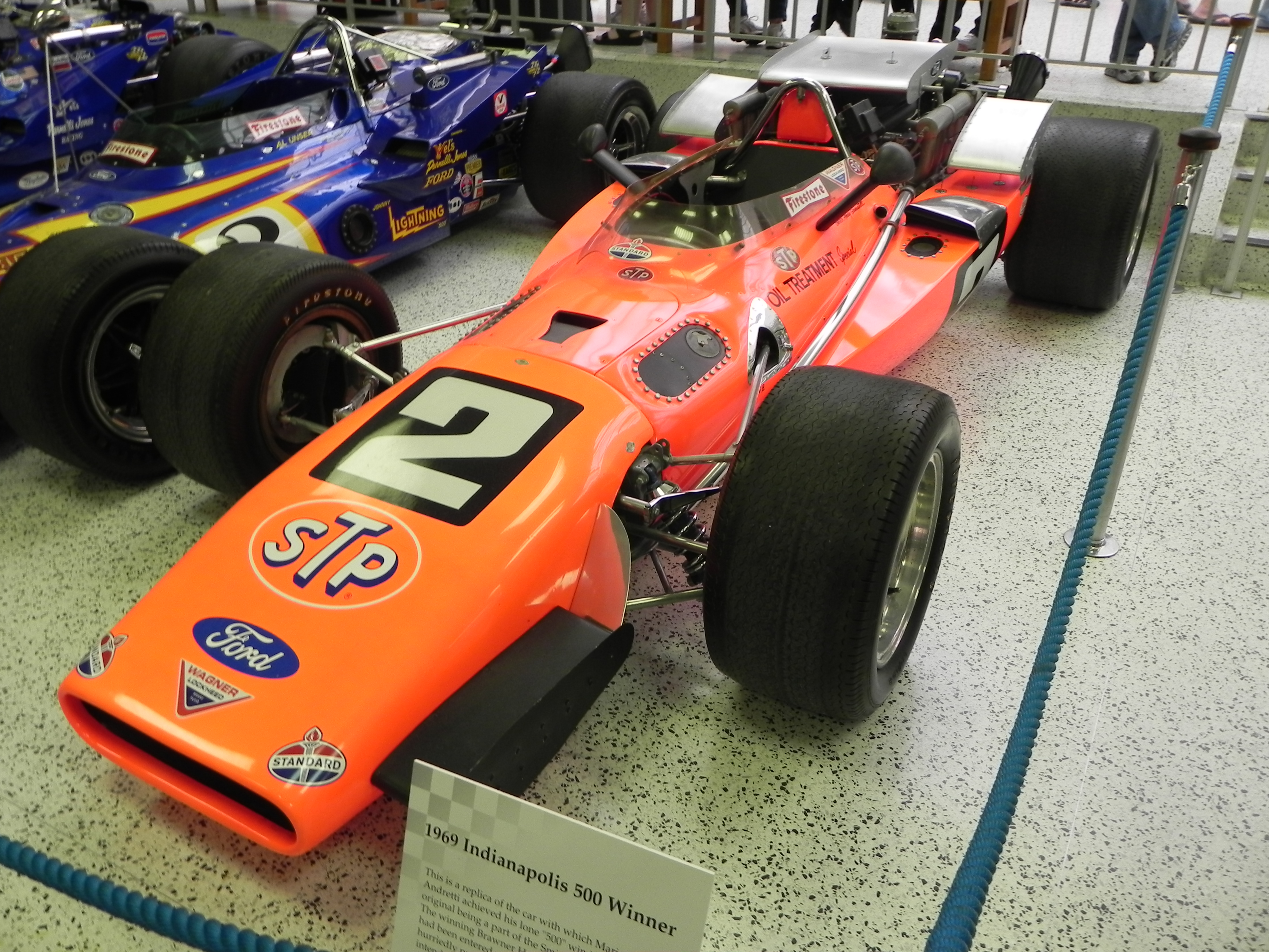 Image of the winning car of the 1969 Indianapolis 500 (Mario Andretti). Photo was taken at the Indianapolis Motor Speedway Hall of Fame Museum, during the month of May 2011, at the 100th Anniversary "Ultimate Indianapolis 500 Winning Car Collection."